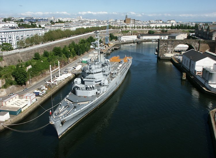 the helicopter carrier Jeanne d'Arc docked in Brest (11 of June 2003)